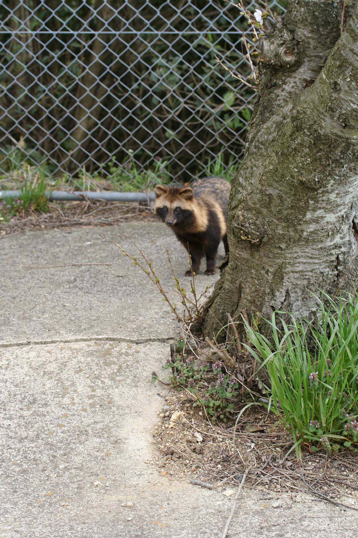 Nyctereutes procyonoides, commonly know as a Tanuki or Japanese Raccoon Dog.